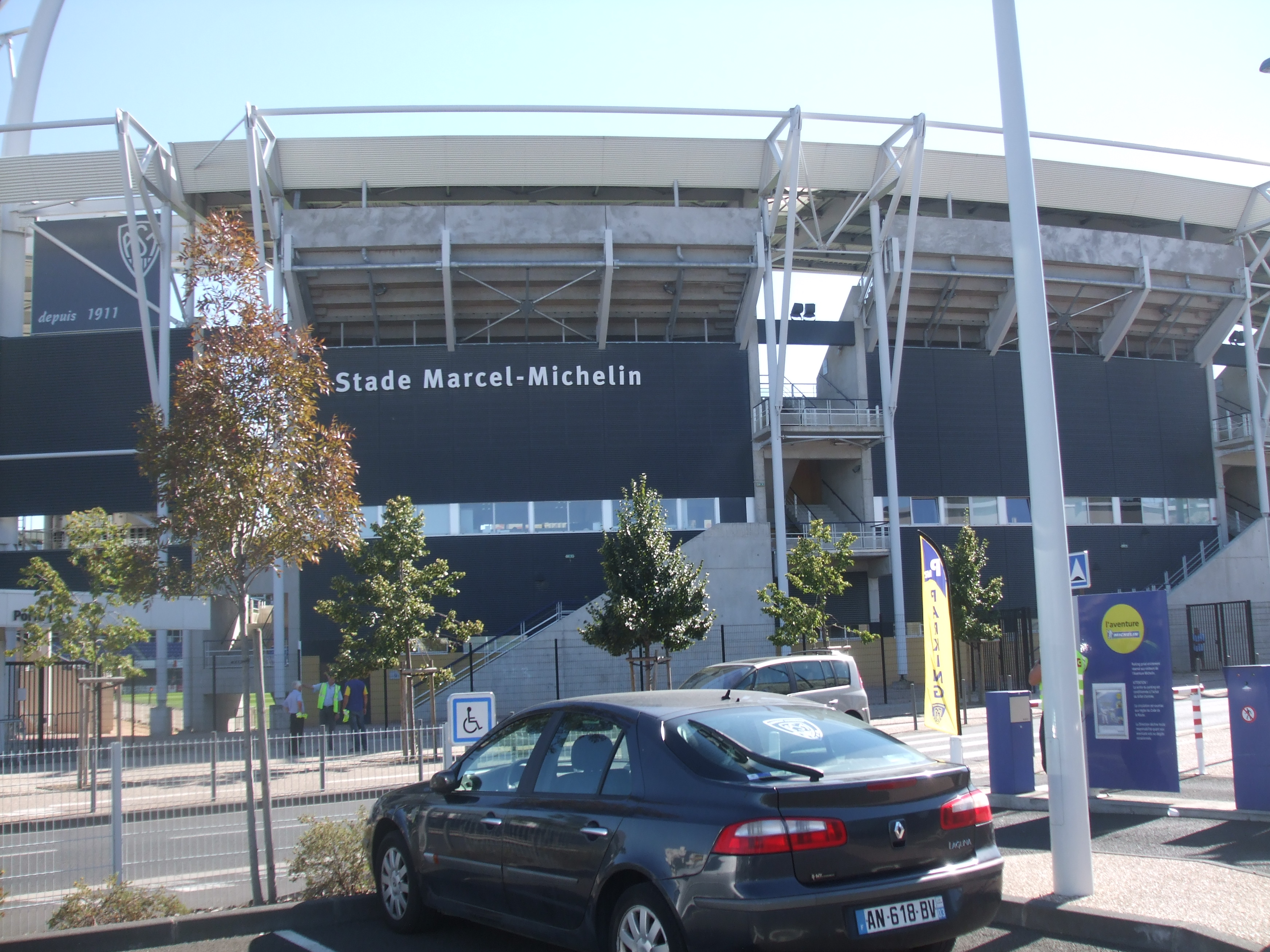 Clermont-Ferrand is the home of the Michelin tyre.